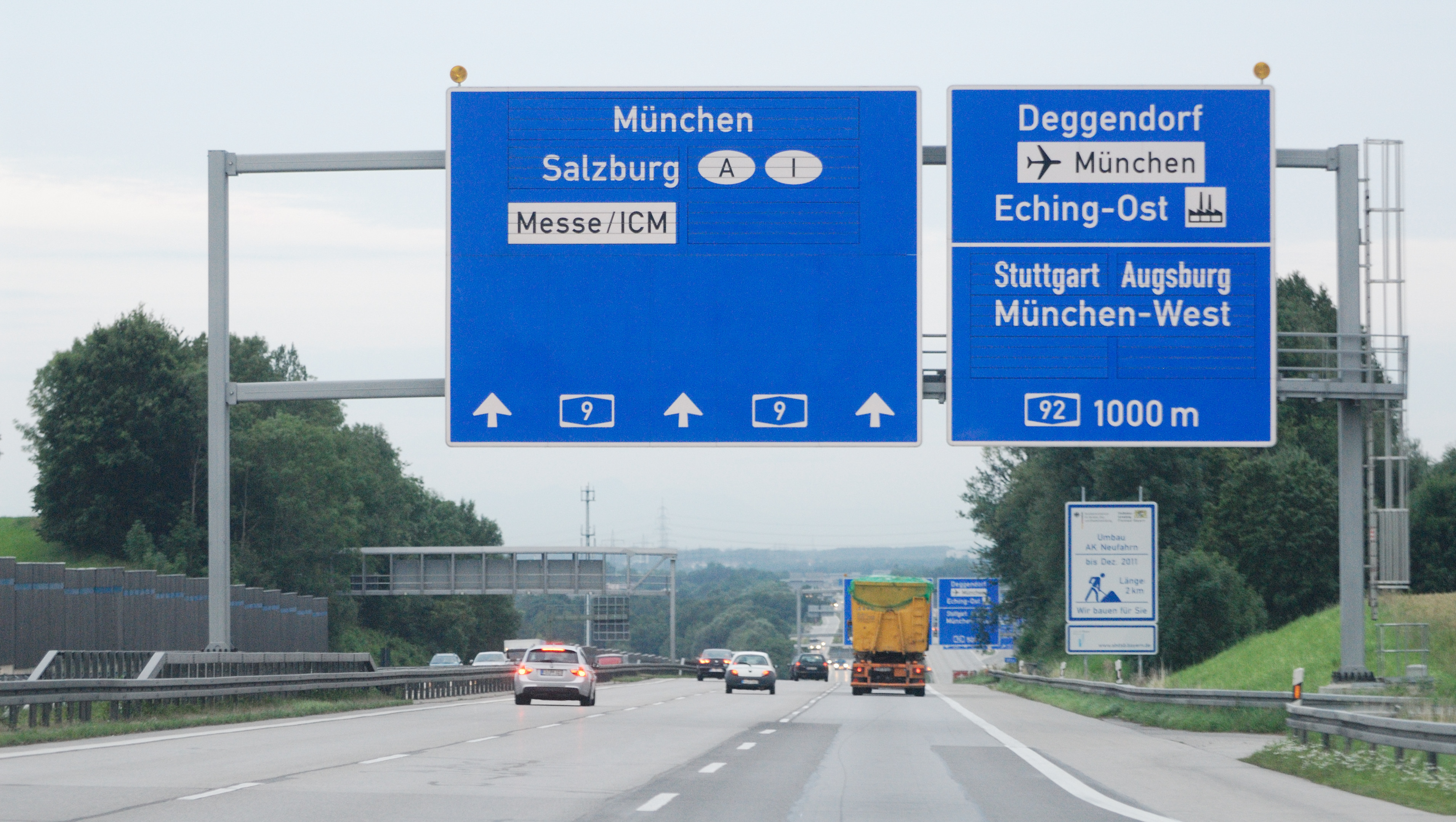 Northern view of the Neufahrn interchange. Road shot from A 9.